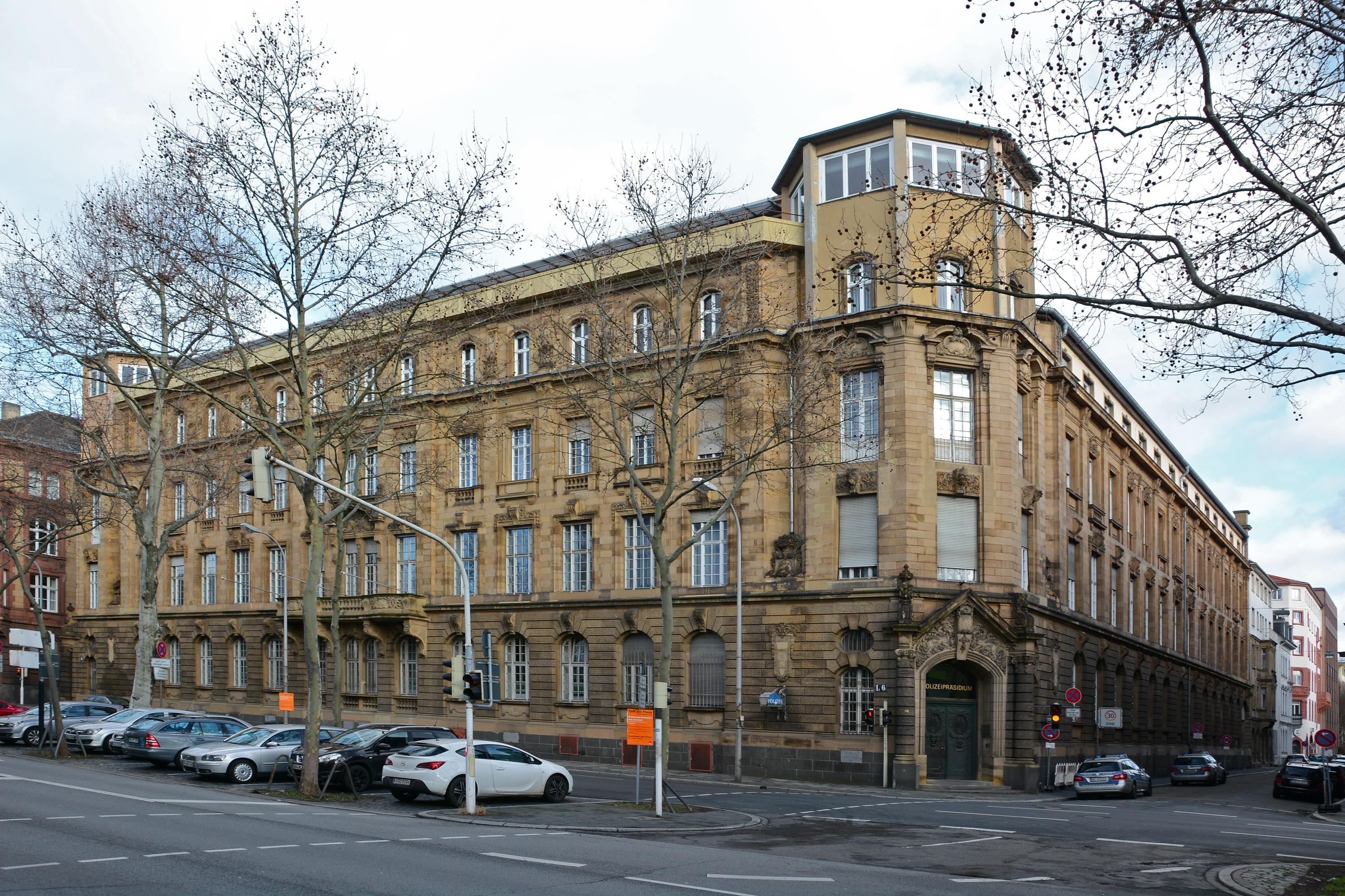 Police headquarters, Mannheim, Germany